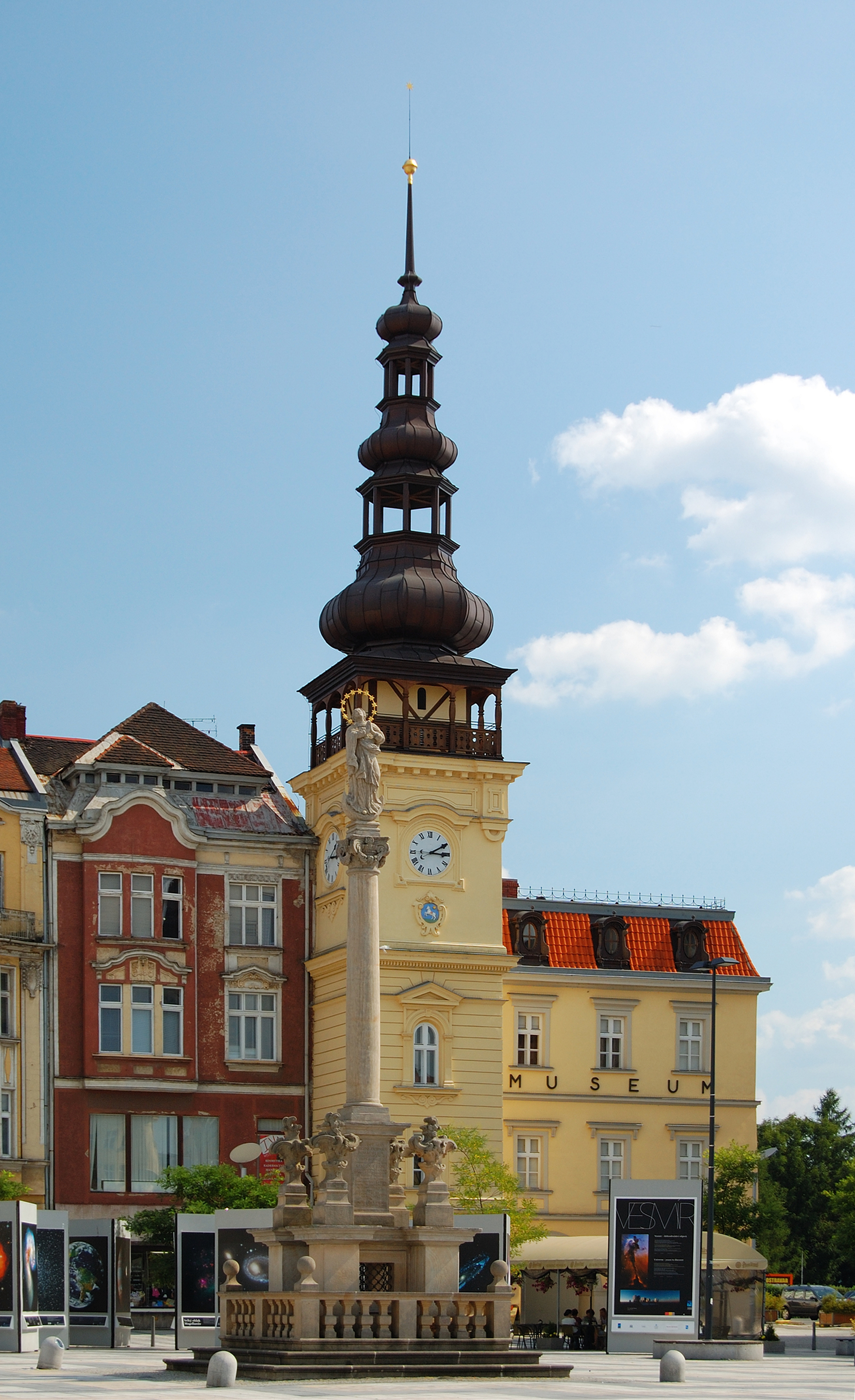 An old town hall and a plague column in Ostrava, Czech Republic.